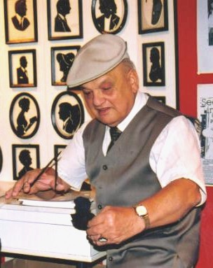 Sydney Royal Easter Show, S.John Ross, originally from the US, has been working at Luna Park and the Royal Easter Show for about 50 years.